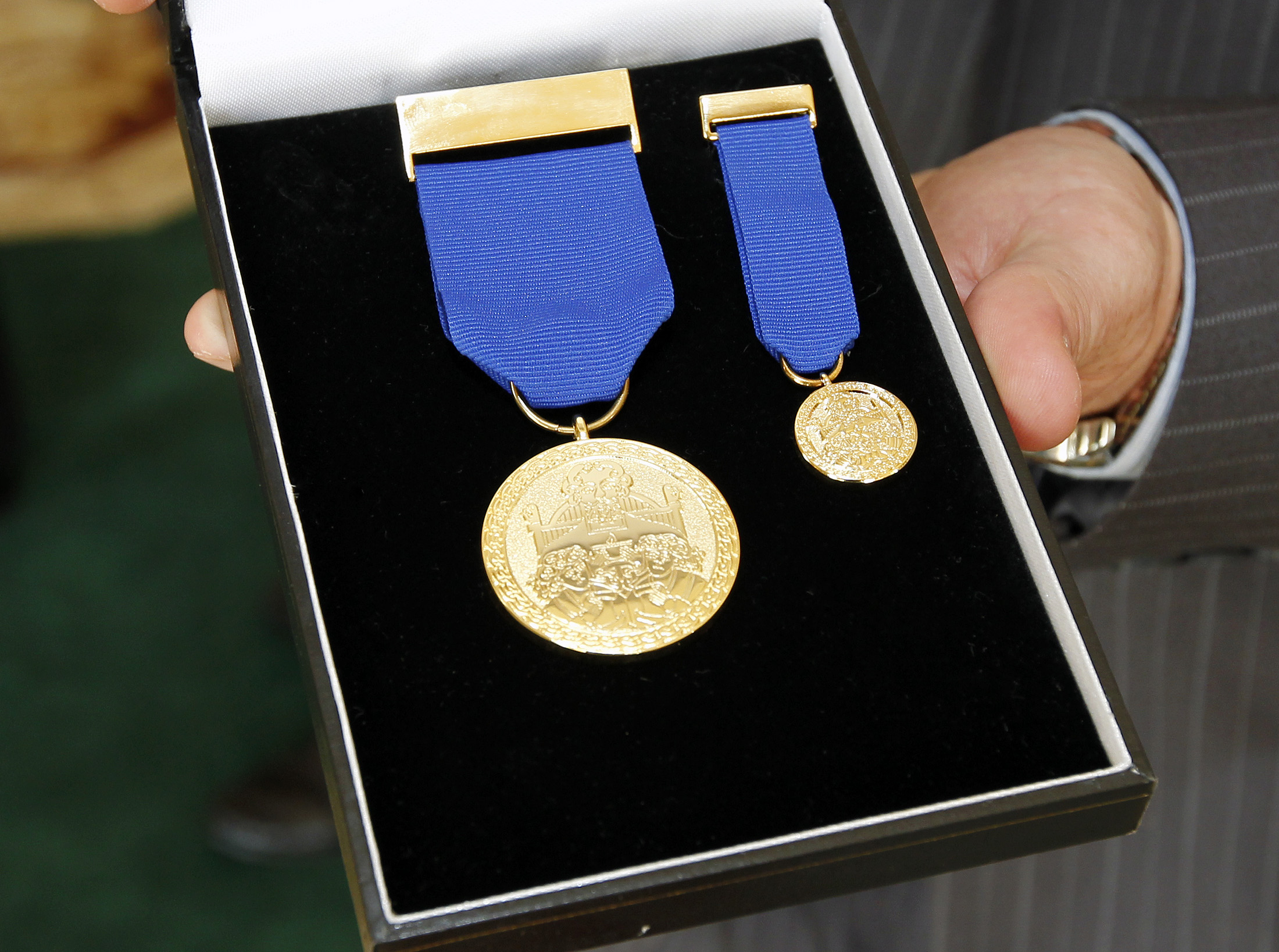 Chest Medal and Miniature of the Order of Clans of Ireland